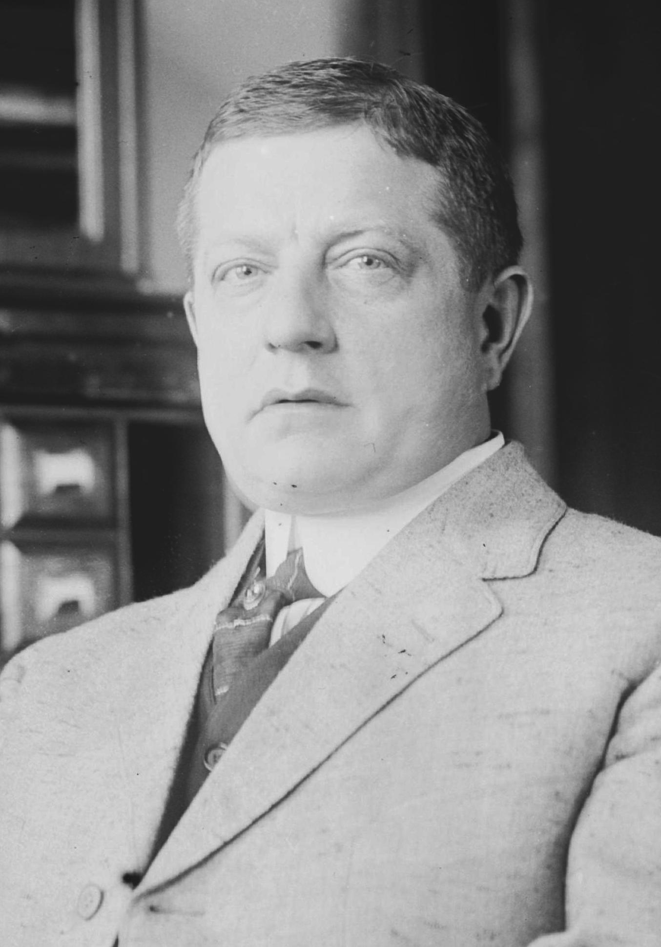 TITLE: J.A. Heydler CALL NUMBER: LC-B2- 2967-11[P&P] REPRODUCTION NUMBER: LC-DIG-ggbain-15266 (digital file from original negative) No known restrictions on publication. MEDIUM: 1 negative : glass ; 5 x 7 in. or smaller. CREATED/PUBLISHED: [no date recorded on caption card] CREATOR: Bain News Service, publisher. NOTES: Title from unverified data provided by the Bain News Service on the negatives or caption cards. John A. Heydler prior to becoming President of the National League (baseball) (Pictorial History Committee, Society for American Baseball Research, 2006). Forms part of: George Grantham Bain Collection (Library of Congress). General information about the Bain Collection is available at FORMAT: Glass negatives. REPOSITORY: Library of Congress Prints and Photographs Division Washington, D.C. 20540 USA DIGITAL ID: (digital file from original neg.) ggbain 15266 CARD #: ggb2005015274